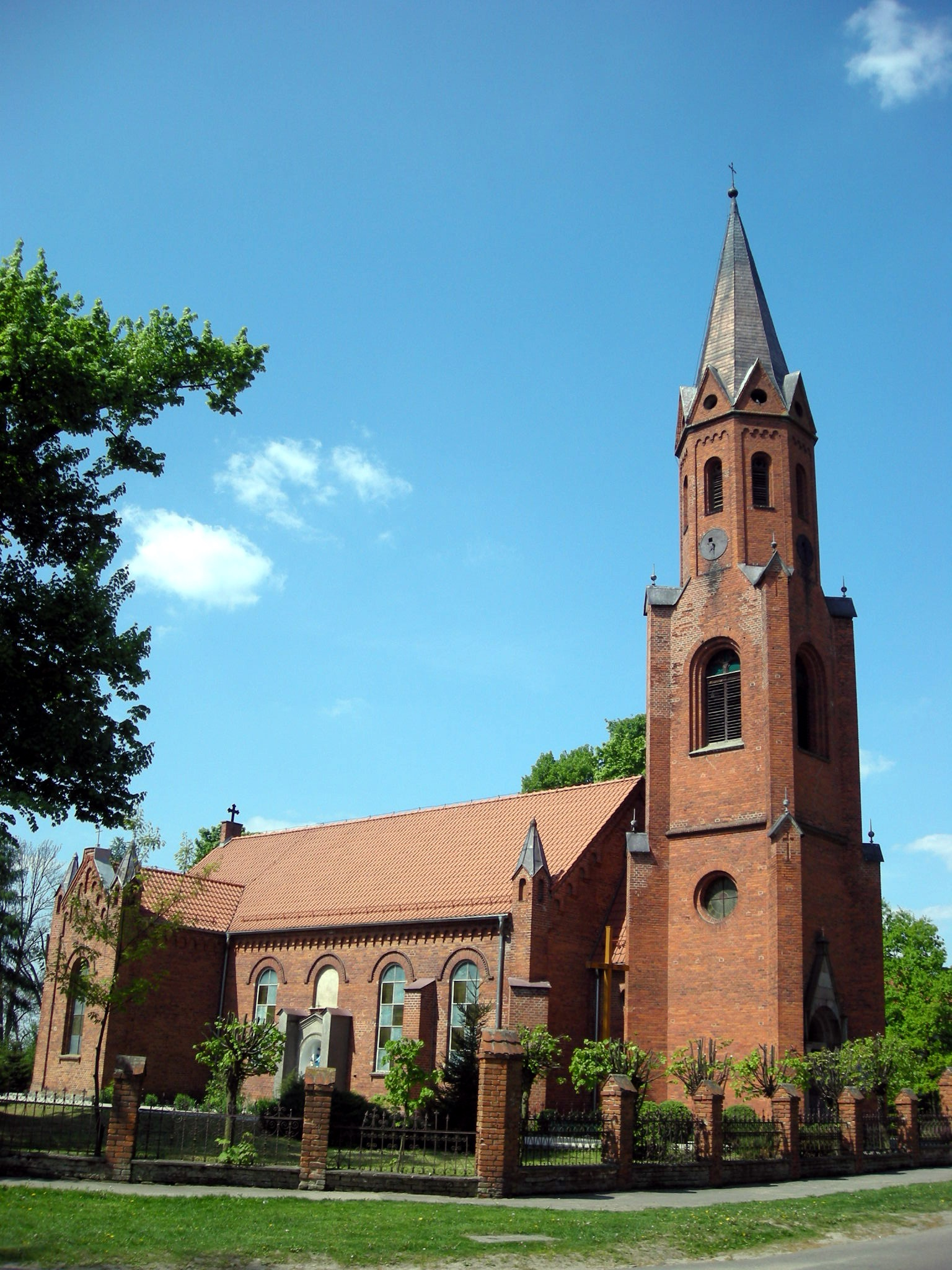 Virgin Mary Queen of Poland church in Rudzienice, Poland.